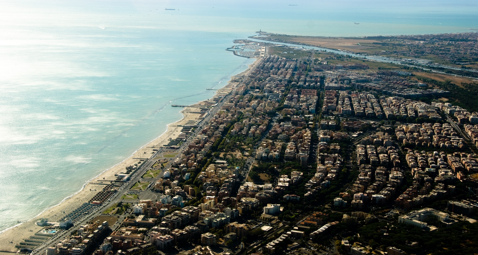 Ostia